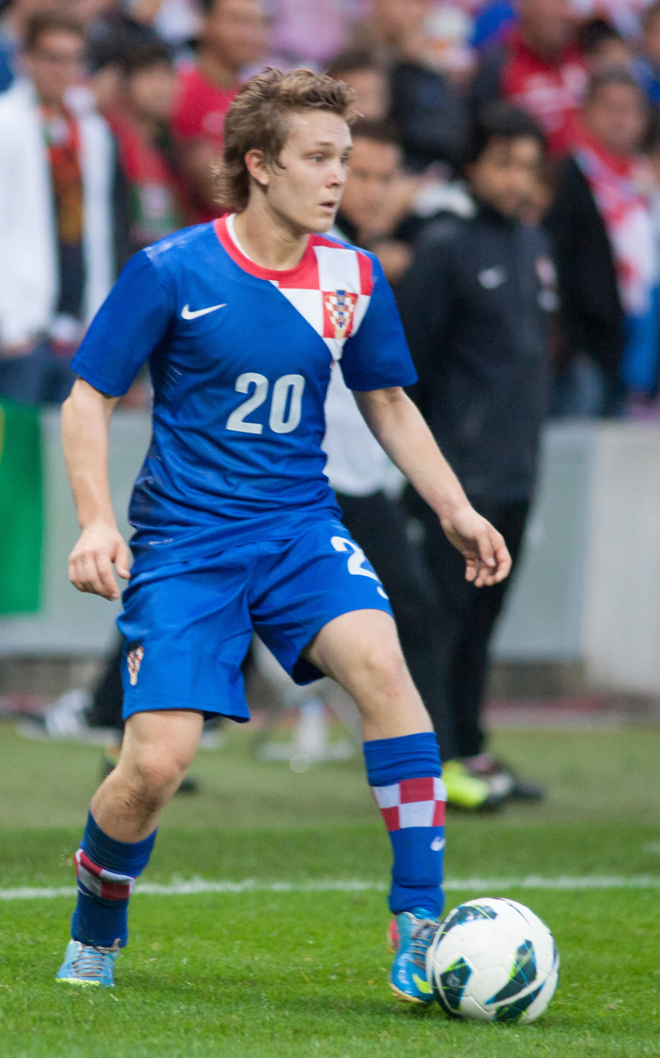 Darijo Srna (L), Alen Halilovic - Croatia vs. Portugal, 10th June 2013